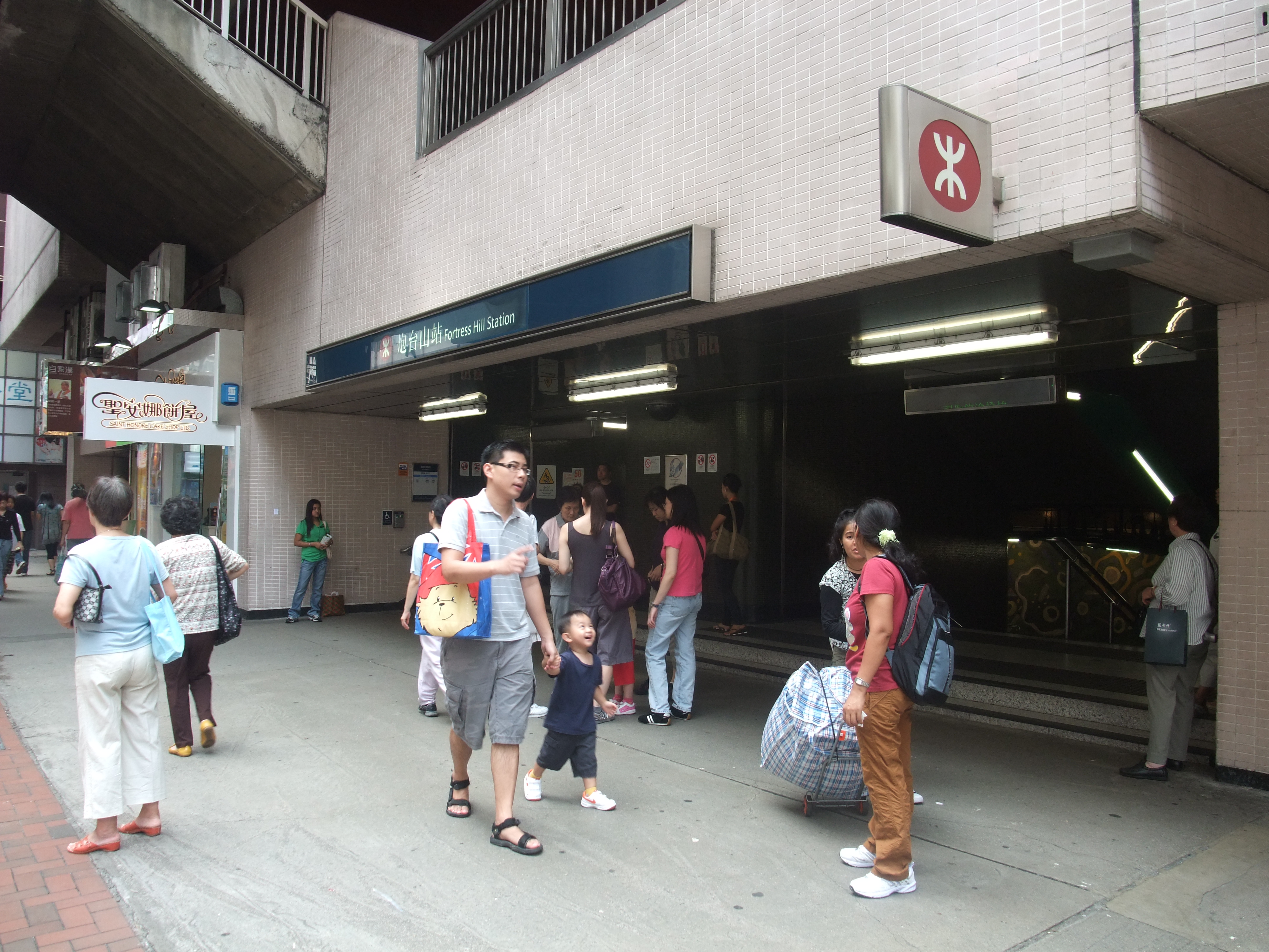 Photo of Fortress Hill Station Exit B